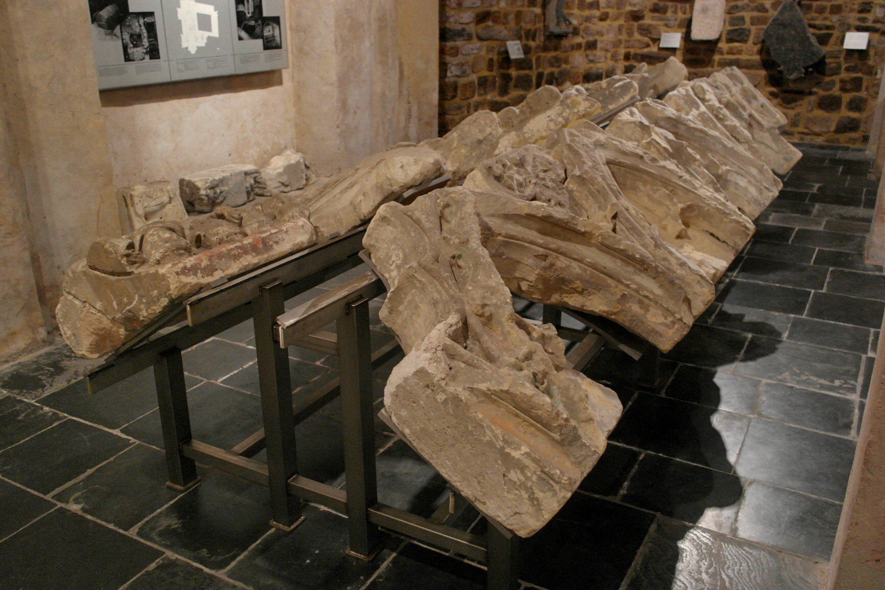 Fragments of a former Gothic rood screen, now in the East Crypt lapidarium of the Basilica of Saint Servatius in Maastricht, the Netherlands. The rood screen (doksaal), sculpted around 1300 of local limestone, once stood in front of the east choir, where it seperated the area reserved for the canons from the public areas of the church. It depicted scenes from the life of Saint Servatius, the patron saint of the church, but its exact shape is unknown. In front of the screen stood an altar with a life-size statue of the saint. The screen was demolished in 1732 and fragments were burried underneath the church floor, where they were discovered in 1915.